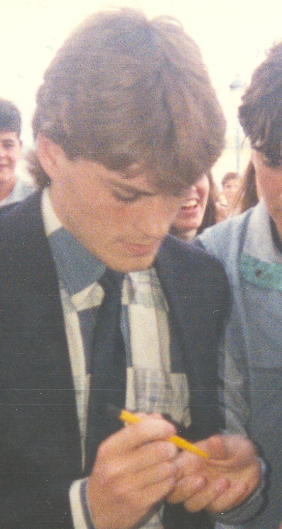 Ex-footballer Julen Guerrero signs autographs.